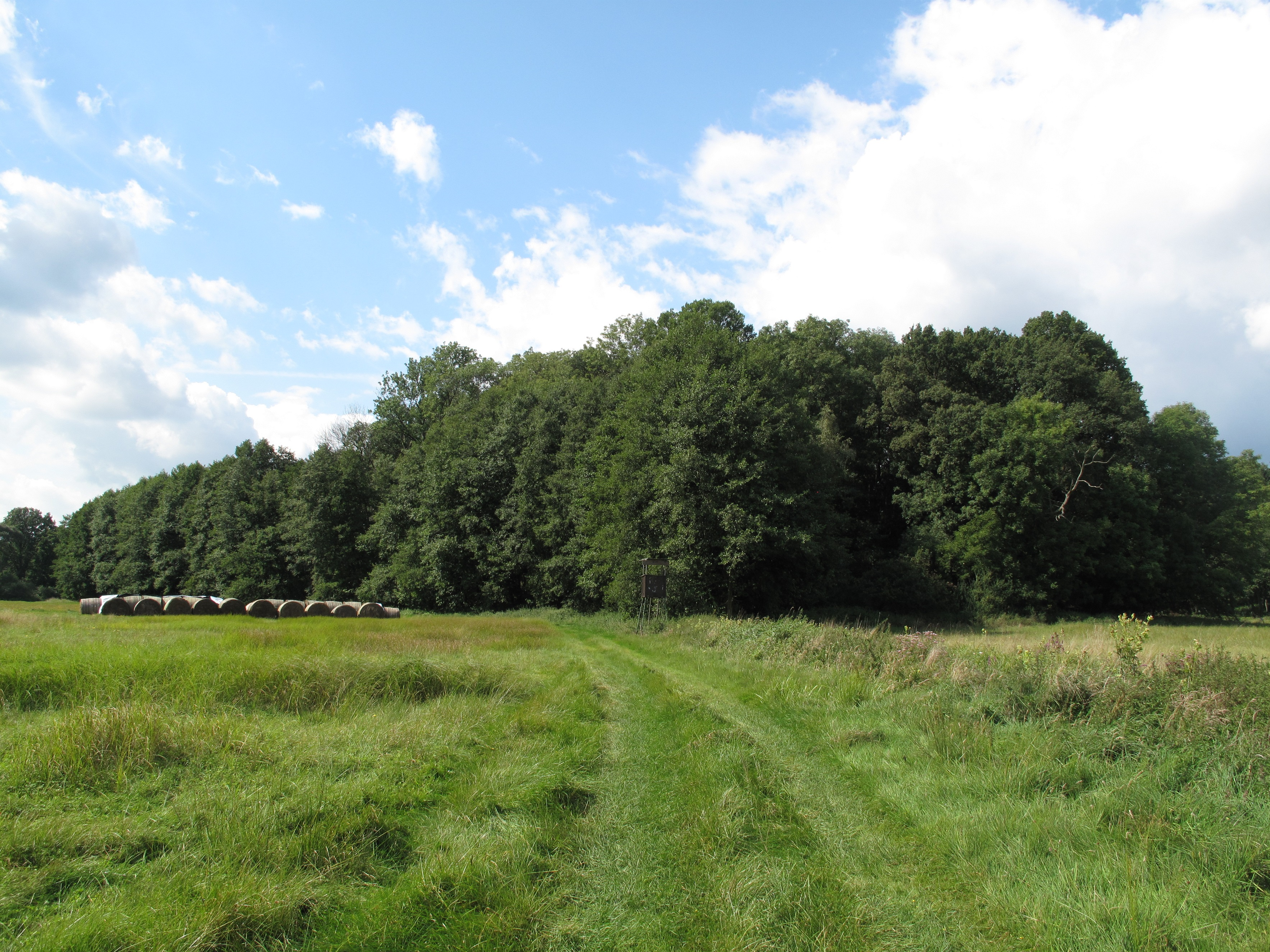 The Räuberberg (german for: robber mountain) is a listed archaeological site/monument (german: Bodendenkmal) in Görsdorf, a village of the municipality Tauche in the District Oder-Spree, Brandenburg, Germany. On the 58,1 meters high hill there was a german castle. Apart from the fortress wall and archaeological finds, dated 12th/13th century, remained no features.